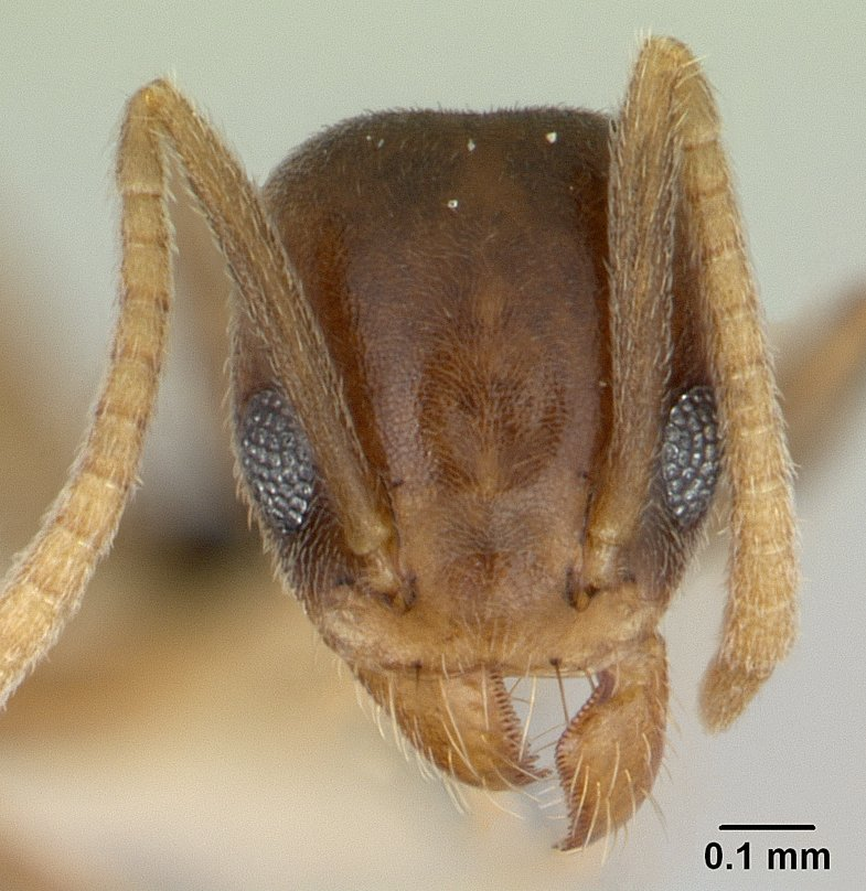 Head view of ant Technomyrmex nigriventris specimen casent0178279.